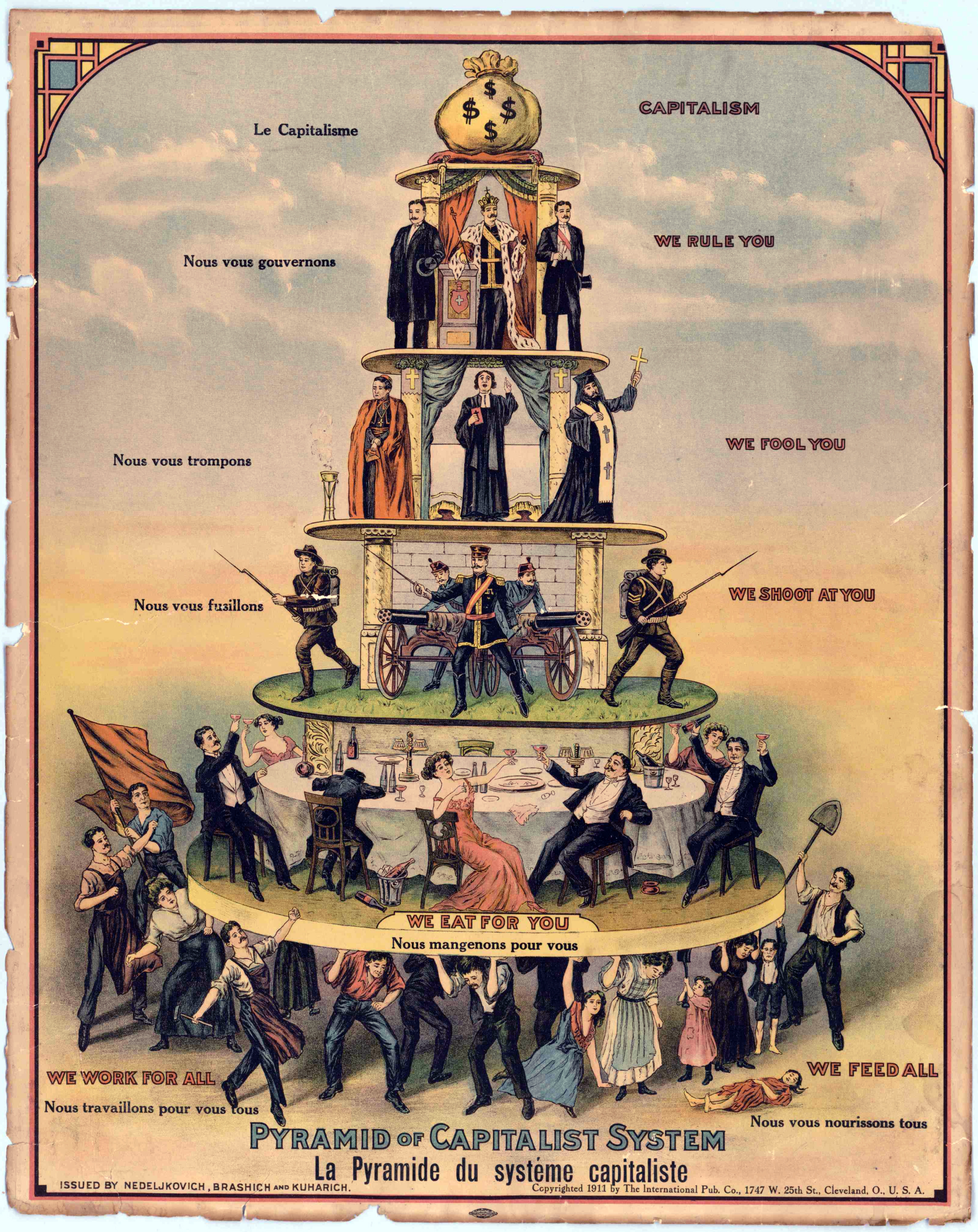 IWW poster printed 1911